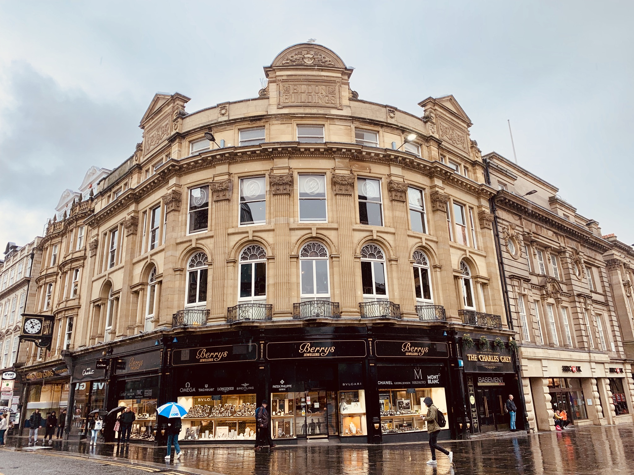 Eldon Buildings Wikidata has entry Q26275771 with data related to this item.